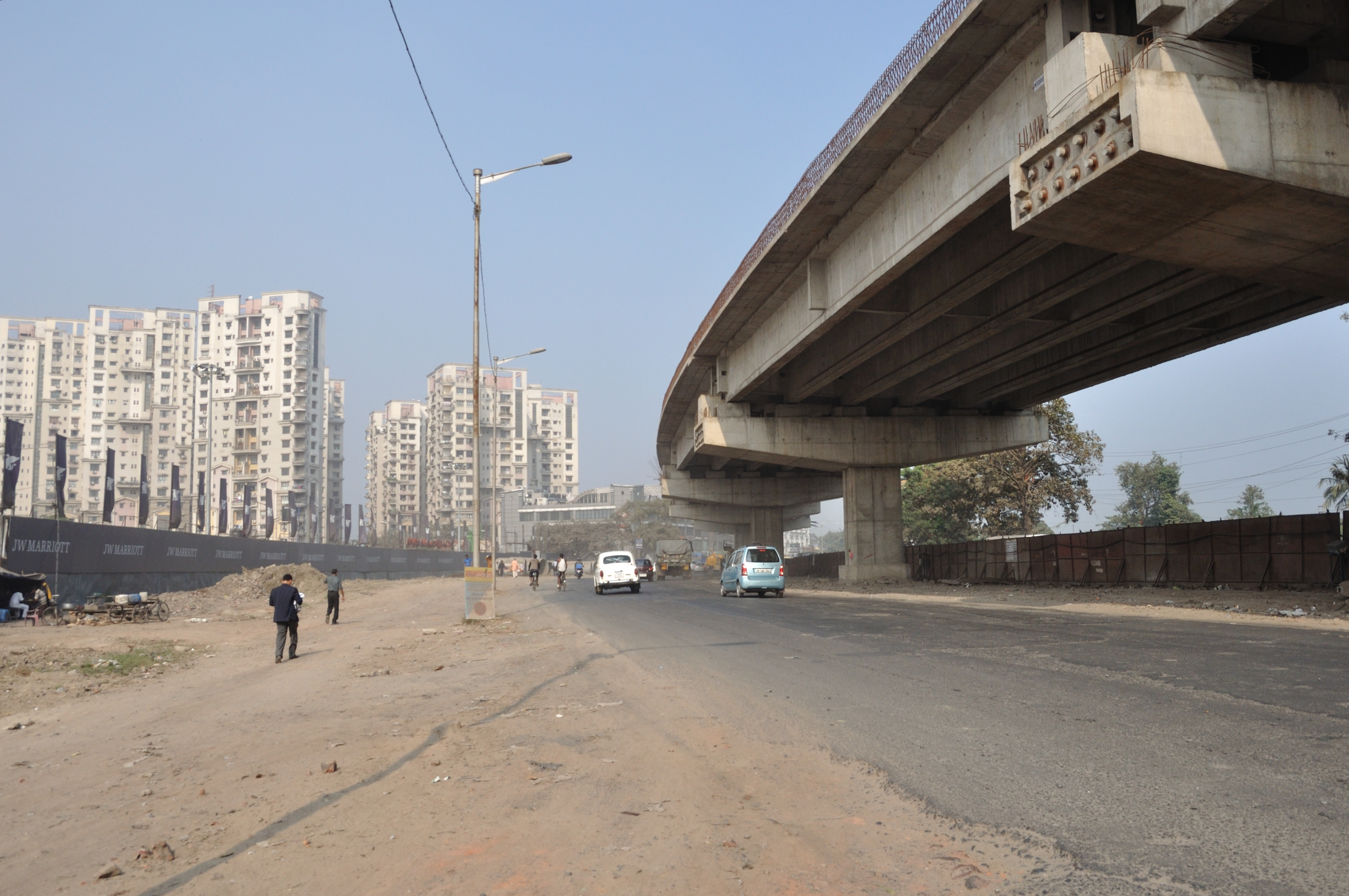 The Eastern Metropolitan Bypass, or simply E.M. Bypass, is a major road on the east side of Kolkata that connects Bidhannagar on the northeast to southern parts (Kamalgazi) of Kolkata.